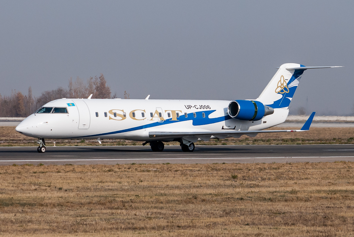 Bombardier CRJ-200 (registration UP-CJ006, operator SCAT Air) at Almaty International Airport, November 3, 2012